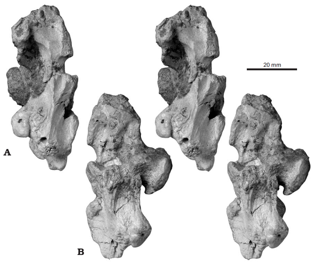 The titanosaurian sauropod Lirainosaurus astibiae Sanz, Powell, Le Loeuff, Martínez, and Pereda Suberbiola, 1999 from the Late Cretaceous of Laño (northern Spain), paratypic braincase (MCNA 7439). Right lateral, left lateral, posterior, and anterior views.